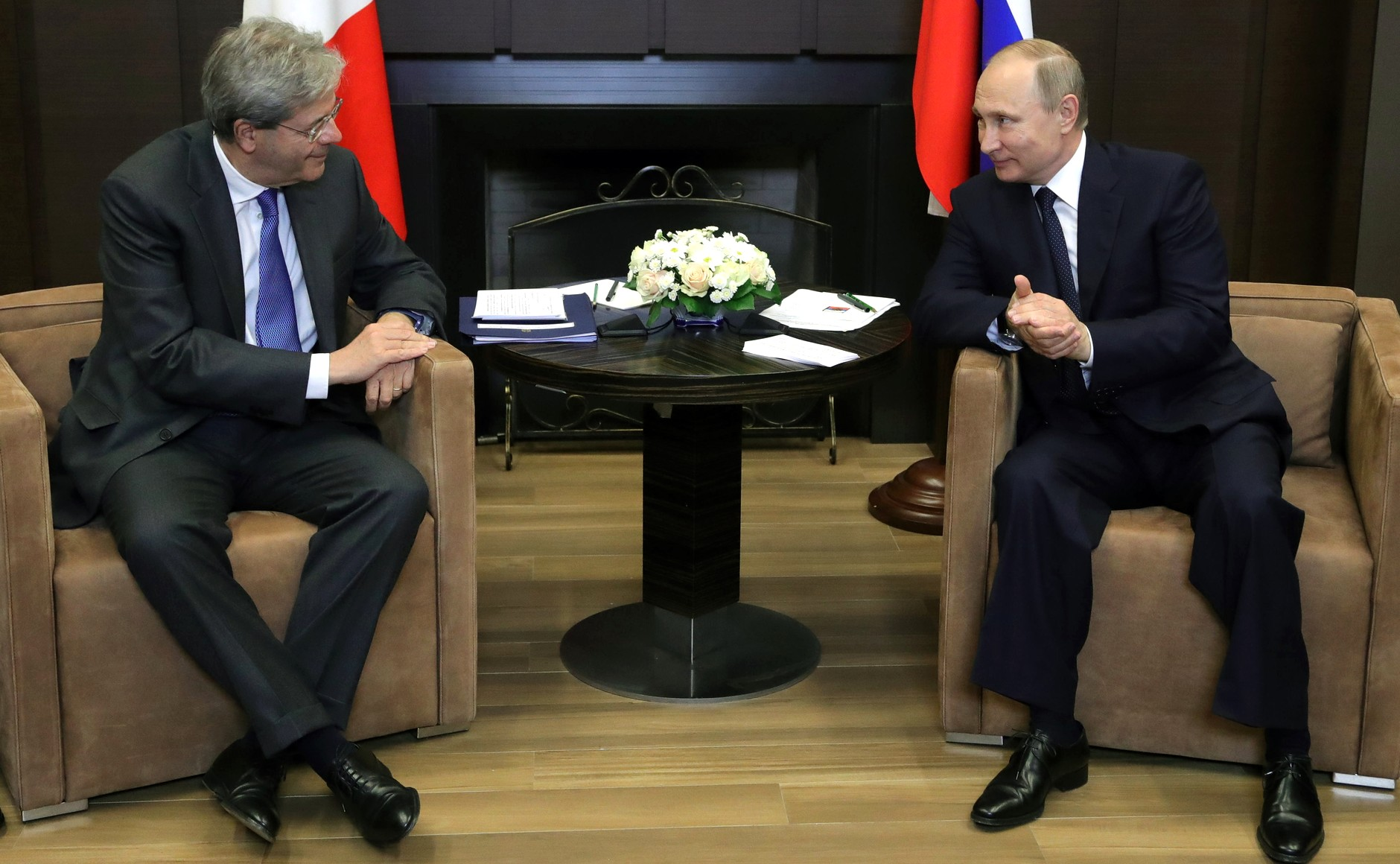 Vladimir Putin held talks with Italian Prime Minister Paolo Gentiloni. Key aspects of bilateral cooperation and current international affairs were the main subjects of discussion.